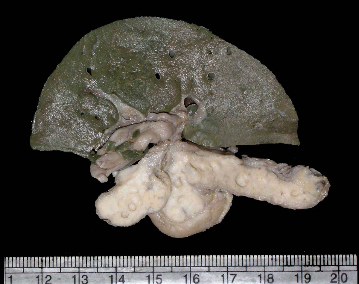 Gross photo of liver and pancreas showing multiple cysts in the latter.